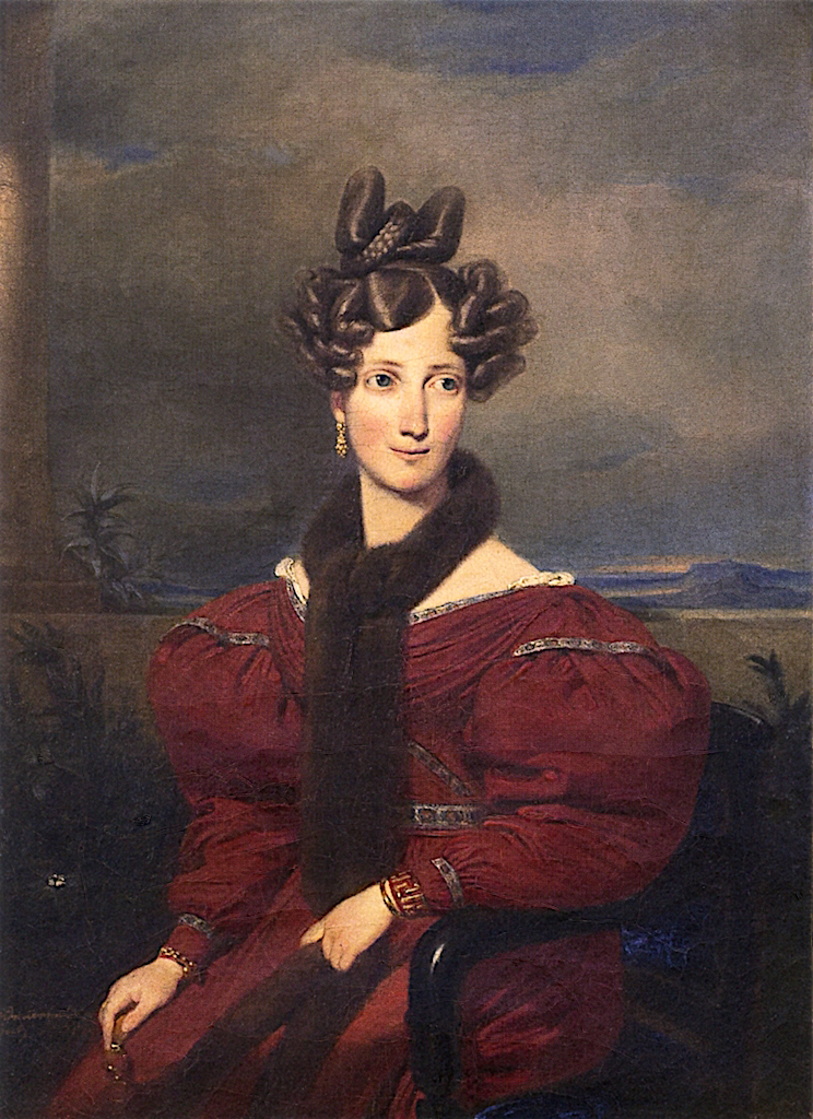 Sophie Wilhelmine Großherzogin von Baden (1801-1865), née Princess of Sweden